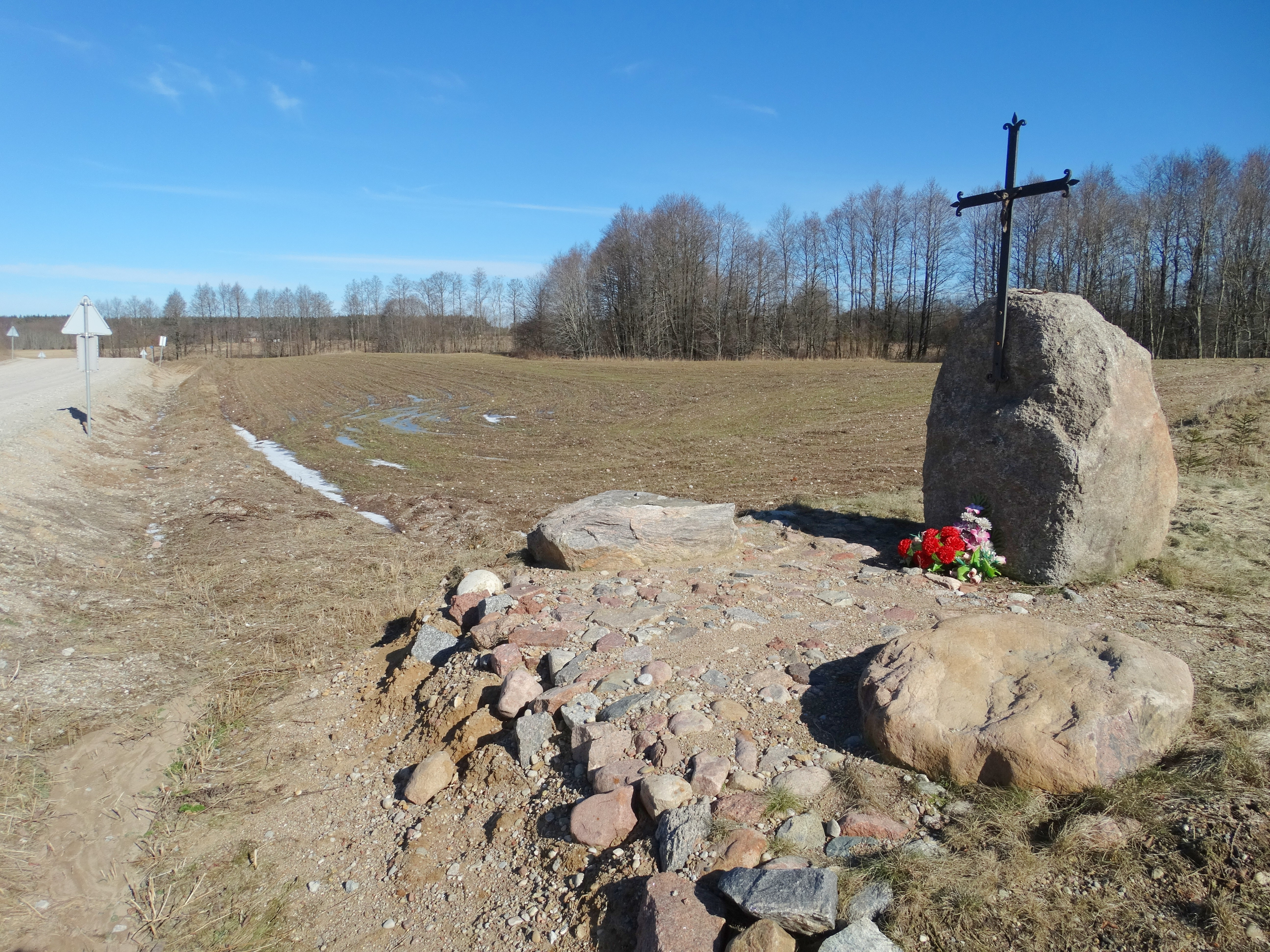 Memorial stone in Lieplaukė, Telšiai district, Lithuania